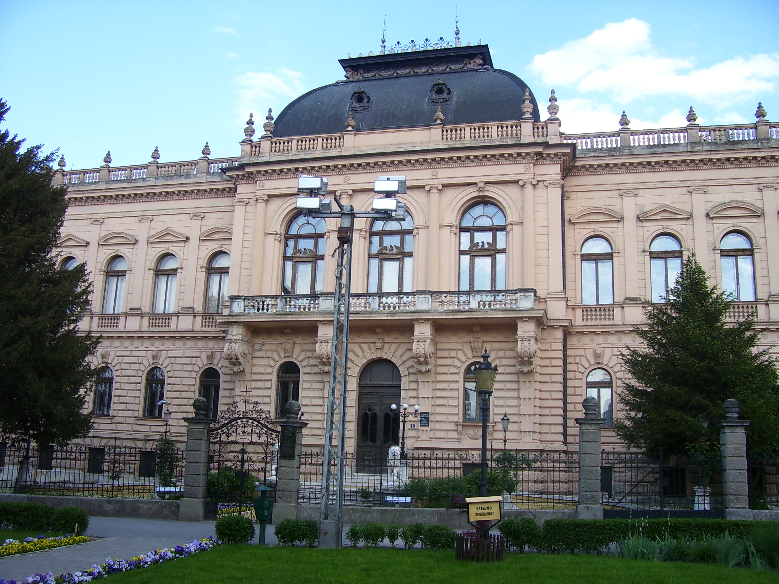 The Patriarchate Court, Sremski Karlovci in Sremski Karlovci, Serbia